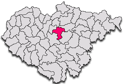 Map Salaj County Romania